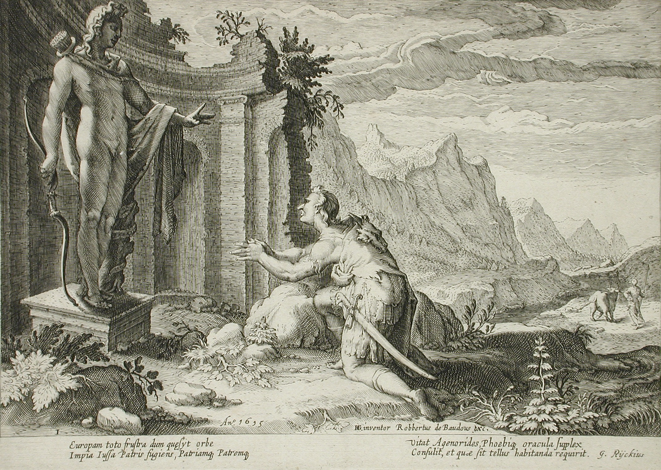 Holland, published 1615 Book: Metamorphoses by Ovid, book 3, plate 1 Prints; engravings Engraving Gift of Mary Stansbury Ruiz (M.83.119.6) Prints and Drawings